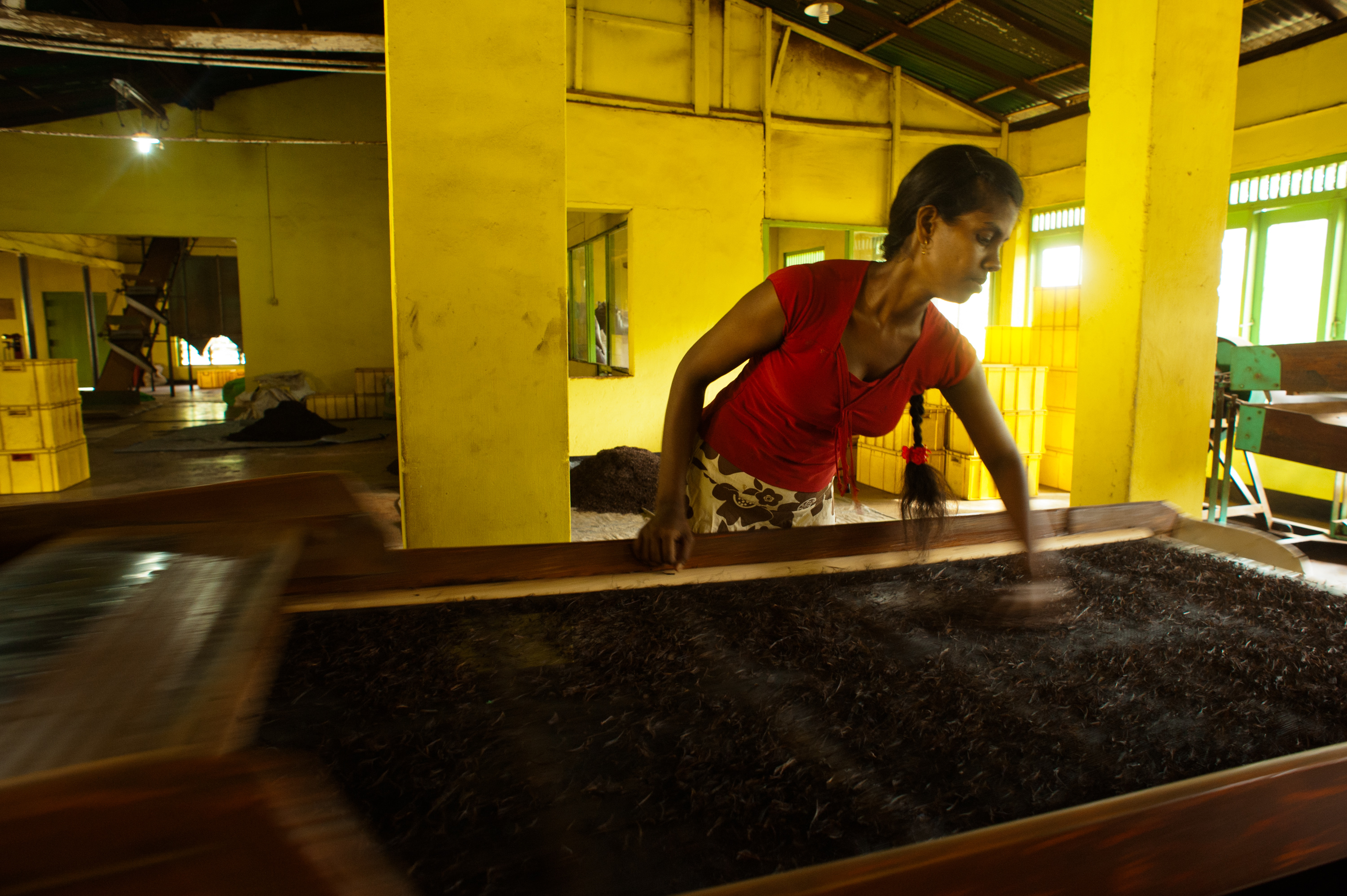 Gathered tea crops processing. Bogawantalawa Valley. Sri Lanka.